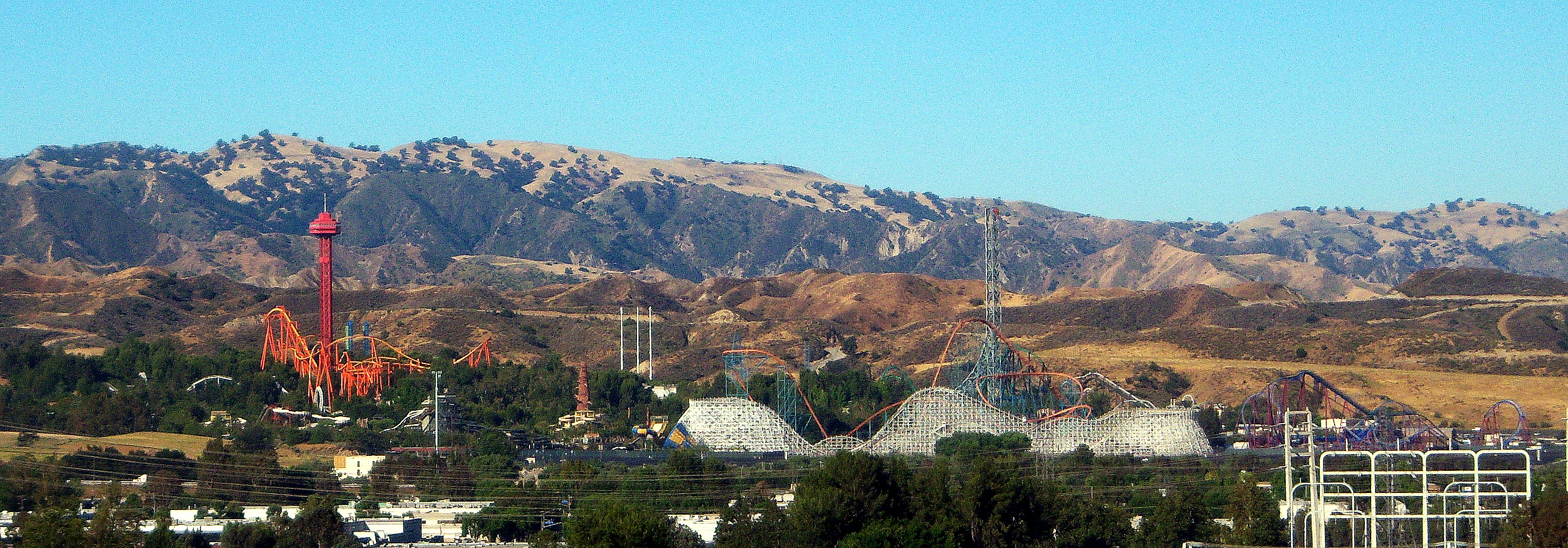 Six Flags Magic Mountain looking from Near Newhall Ranch and Copperhill A3B Challenge Lost 0-4-5 Pick Your Poison Lost No Votes